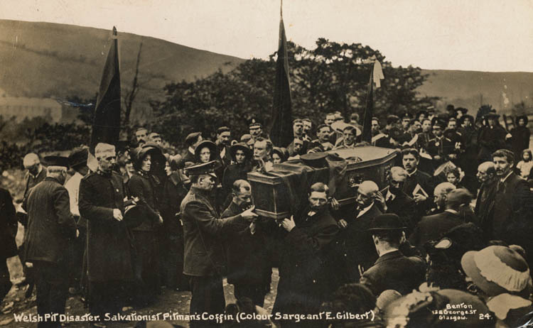 Salvation Army pitman's coffin